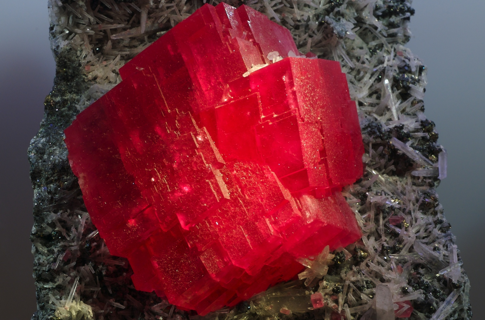 Rhodochrosite, from the Sweet Home Mine, Colorado, private collection